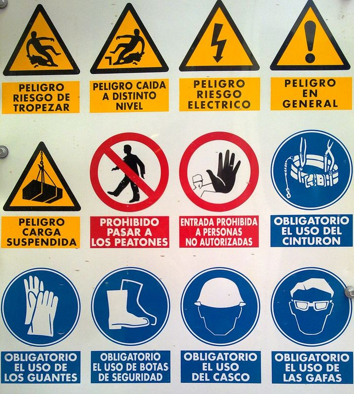 safety build indications